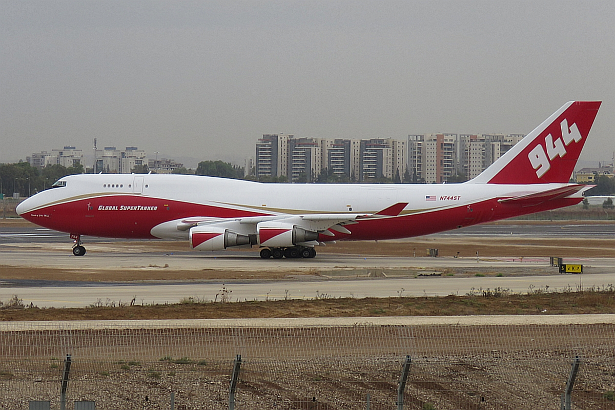 The "Supertanker" Leaving LLBG after finishing its assistance regarding fighting the wildfire in Israel.